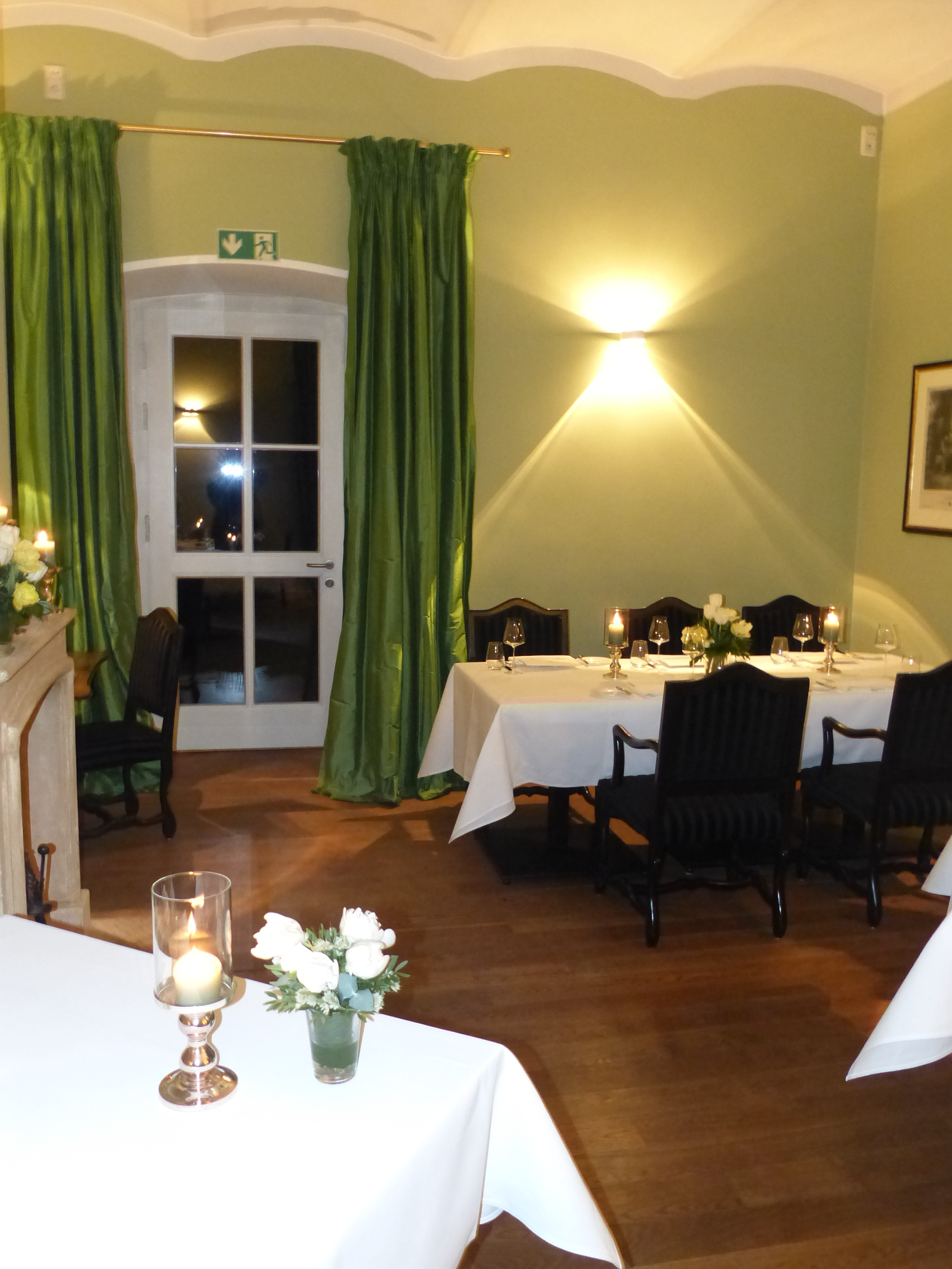 Inner view Laurushaus Castle Hugenpoet